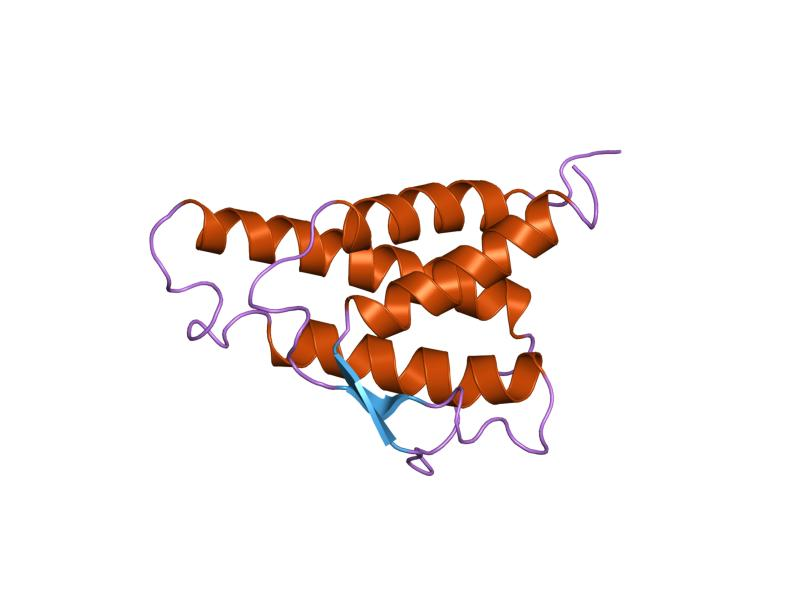 Cartoon representation of the molecular structure of protein registered with 1itm code.